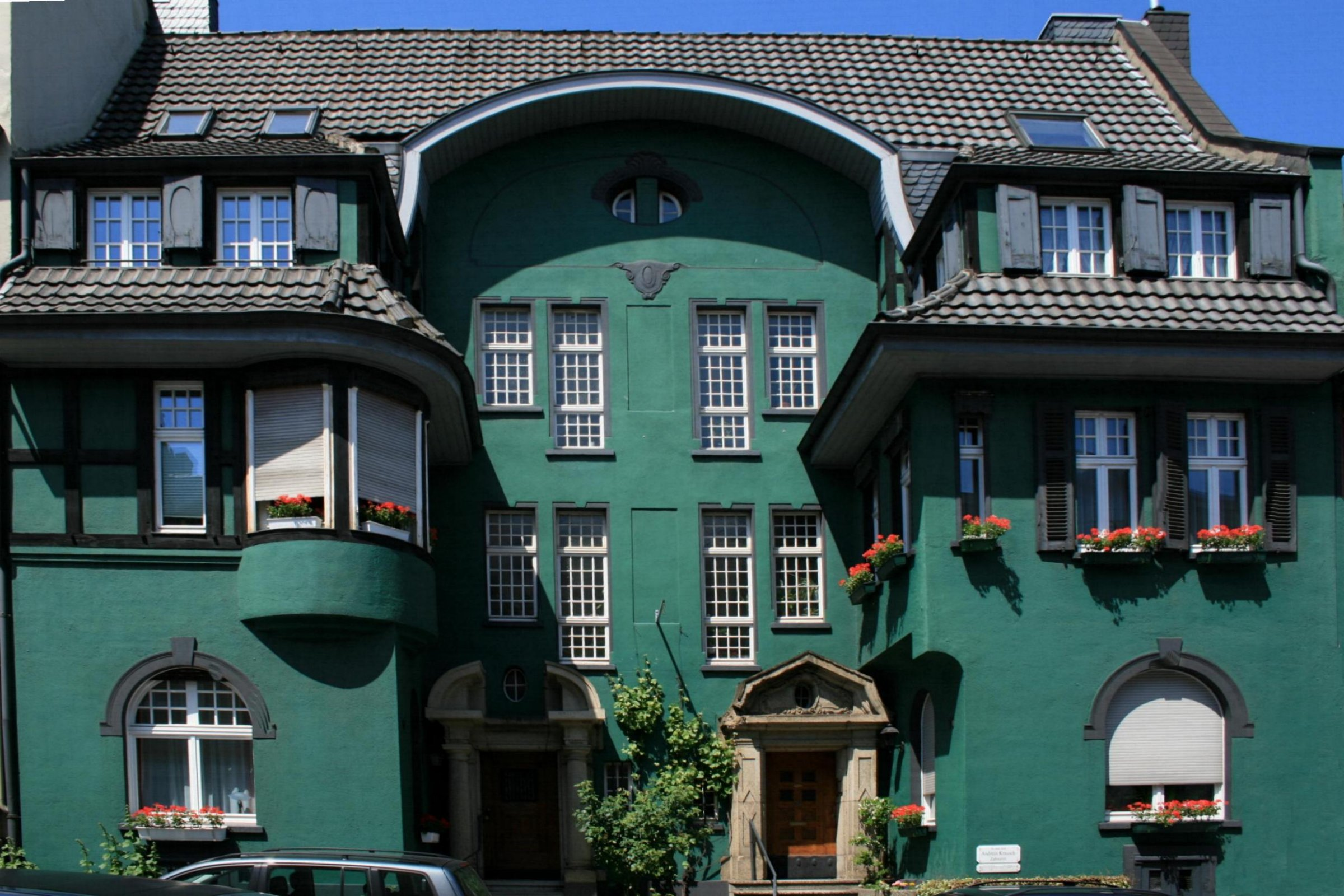 Cultural heritage monument No. P 008 in MönchengladbachThis is a photograph of an architectural monument. 008